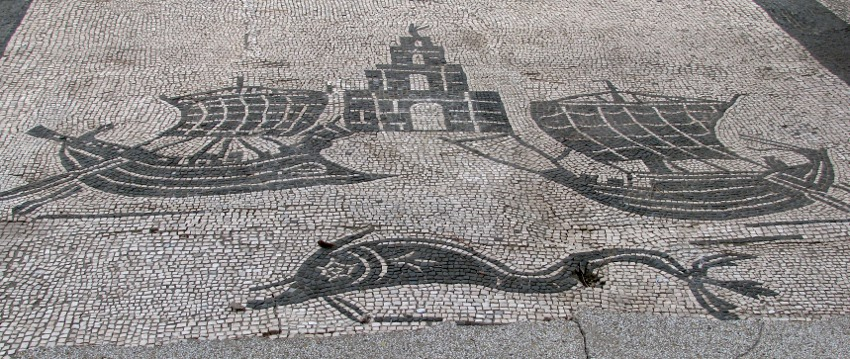 Statio 46, Square of Corporations (Ostia antica) - Lighthouse with 4 levels, two ships, dolphin